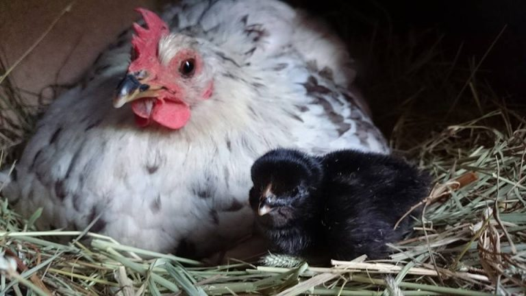 Bjurholmshöna with chicken at Brännänga Farm, Västerbotten.